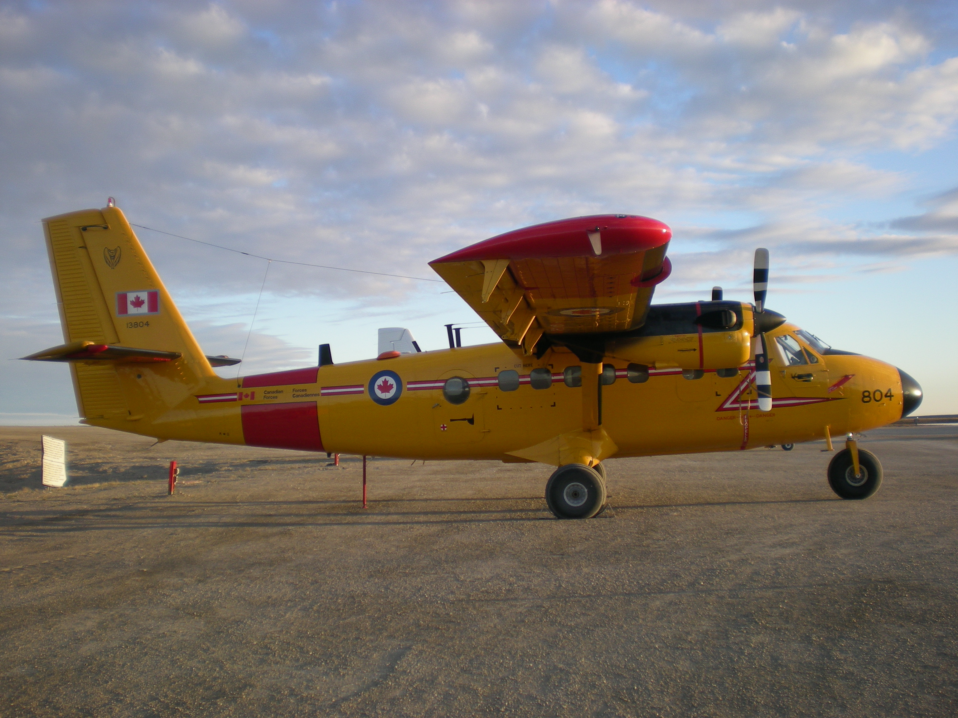 Canadian Armed Forces CC-138 Twin Otter at Cambridge Bay Airport